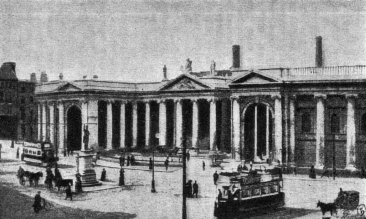 Dublin, Bank of Ireland